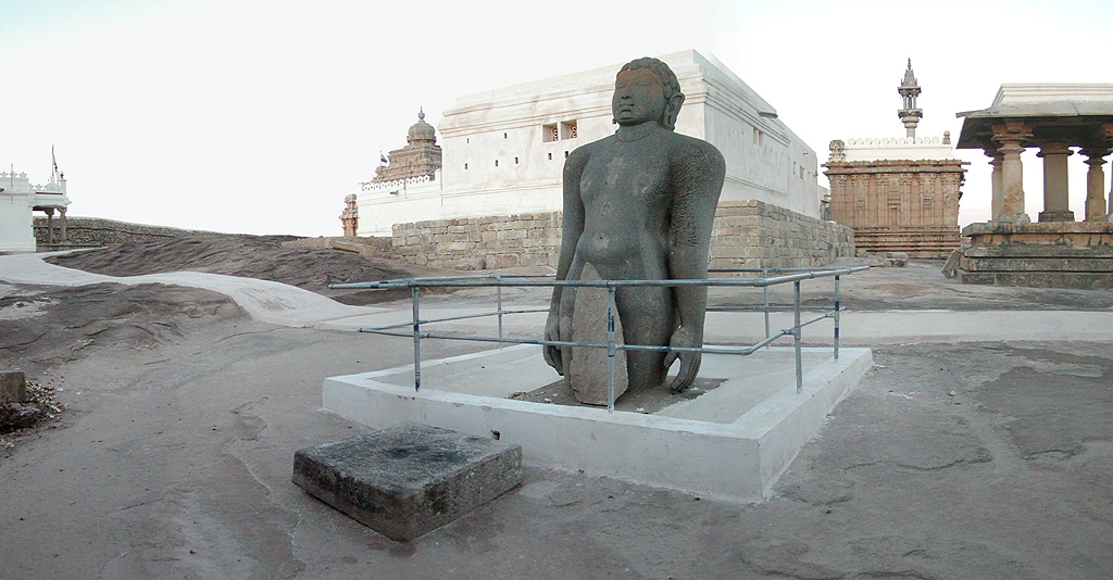 Bharatha Statue on Chandragiri hill at Shravanabelagola, Karnataka, India.